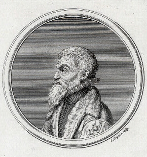 Italian musicologist and composer Ercole Bottrigari (1531-1612) by Charles Grignion.